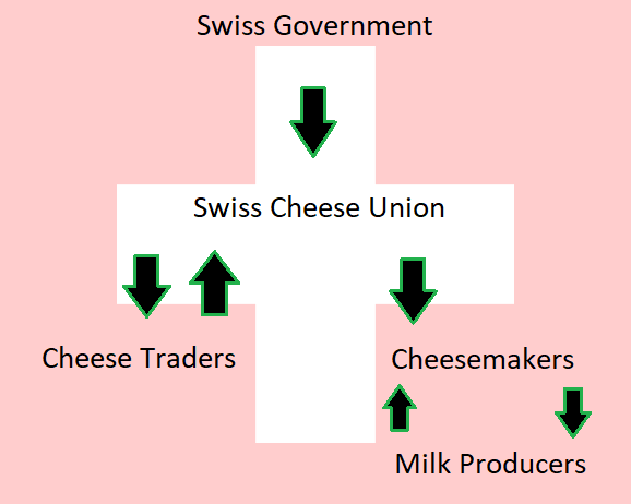 Flow of money in the Swiss Cheese Union